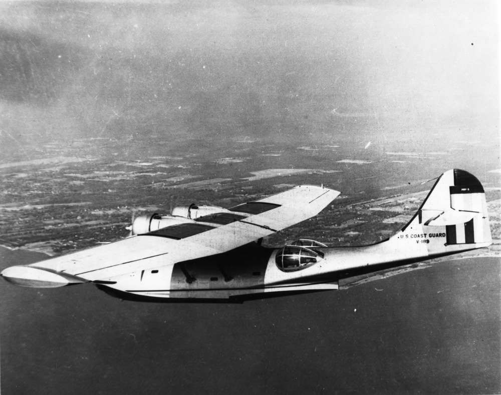 PictionID:41554325 - Title:Consolidated PBY-5 V-189 USCG Oct40 - Catalog:16_000560 - Filename:16_000560.tif - - - - - - Image from the Ray Wagner Collection. Ray Wagner was Archivist at the San Diego Air and Space Museum for several years and is an author of several books on aviation --- ---Please Tag these images so that the information can be permanently stored with the digital file.---Repository: San Diego Air and Space Museum